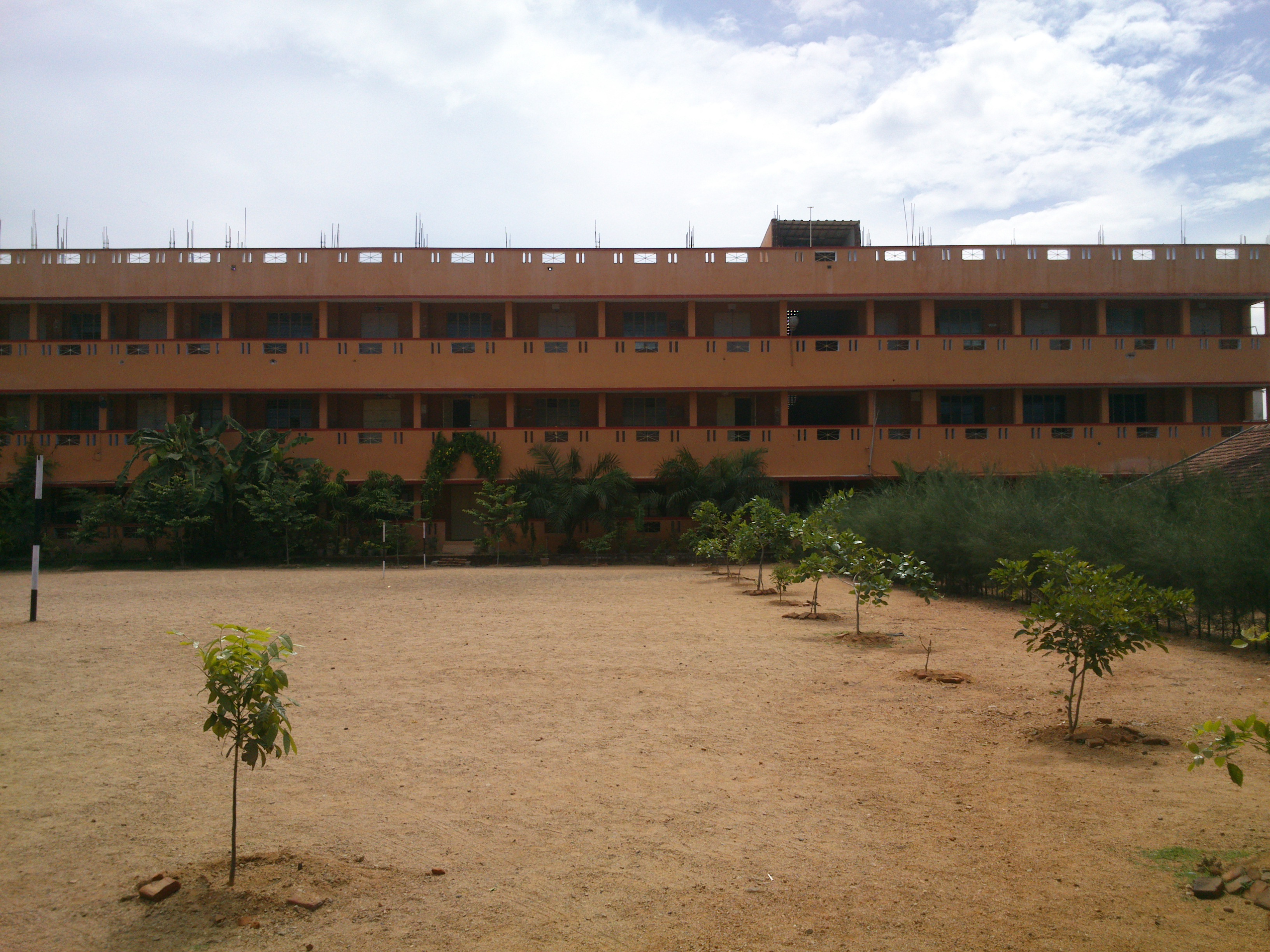 ஸ்ரீமத் சிவஞான பாலய சுவாமிகள் தமிழ்க் கல்லூரி மயிலம்